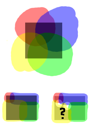 Above: Cover (four colourful sets) of a planar shape (dark).